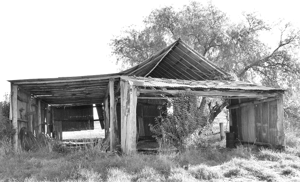 Abandoned machinery shed, Maldon NSW Australia